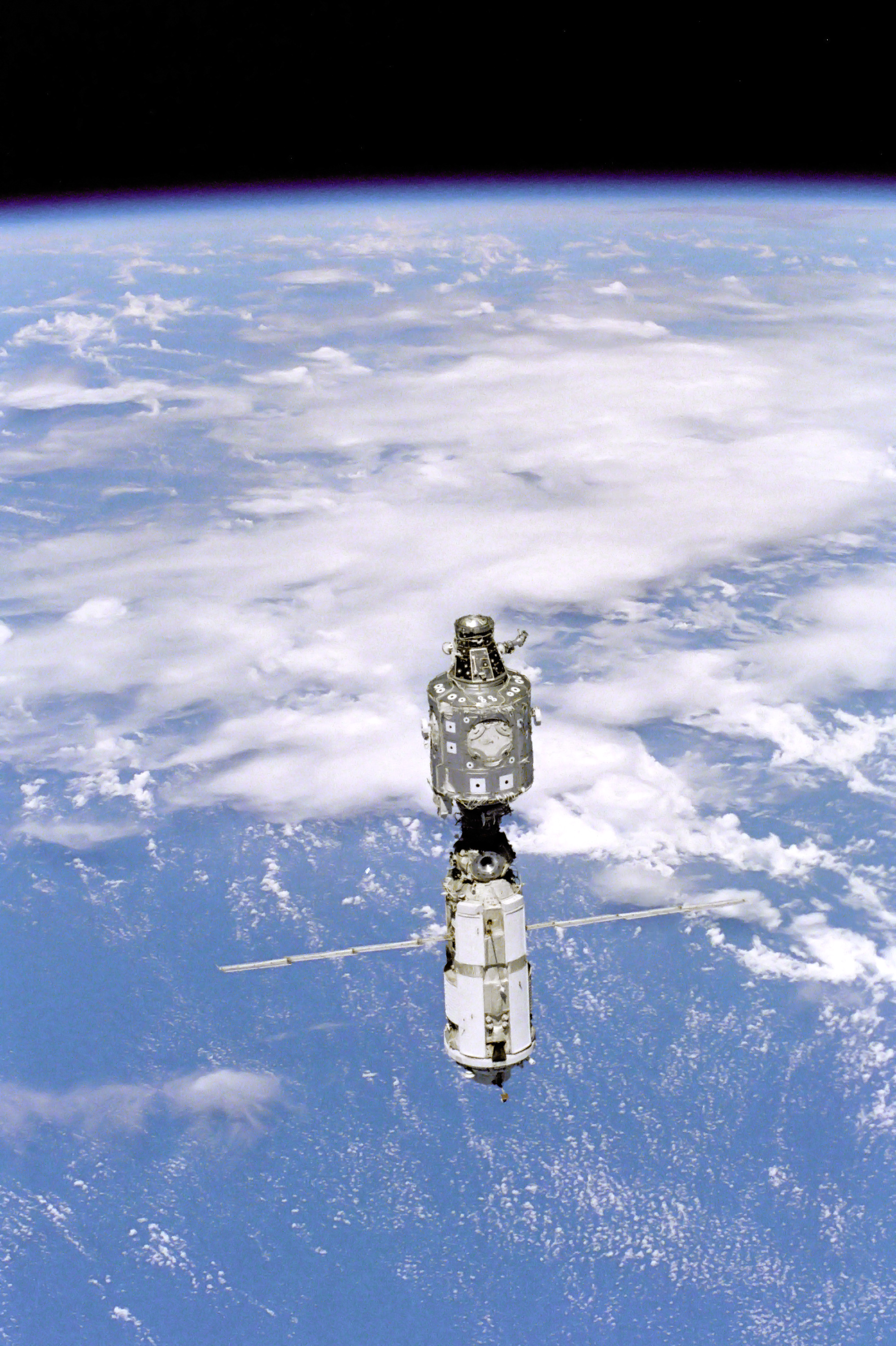 Backdropped against white clouds and blue ocean waters, the International Space Station (ISS) moves away from the Space Shuttle Discovery. The U.S.- built Unity node (top) and the Russian-built Zarya or FGB module (with the solar array panels deployed) were joined during a December 1998 mission. A portion of the work performed on the May 30 space walk by astronauts Tamara E. Jernigan and Daniel T.Barry is evident at various points on the ISS, including the installation of the Russian-built crane (called Strela).